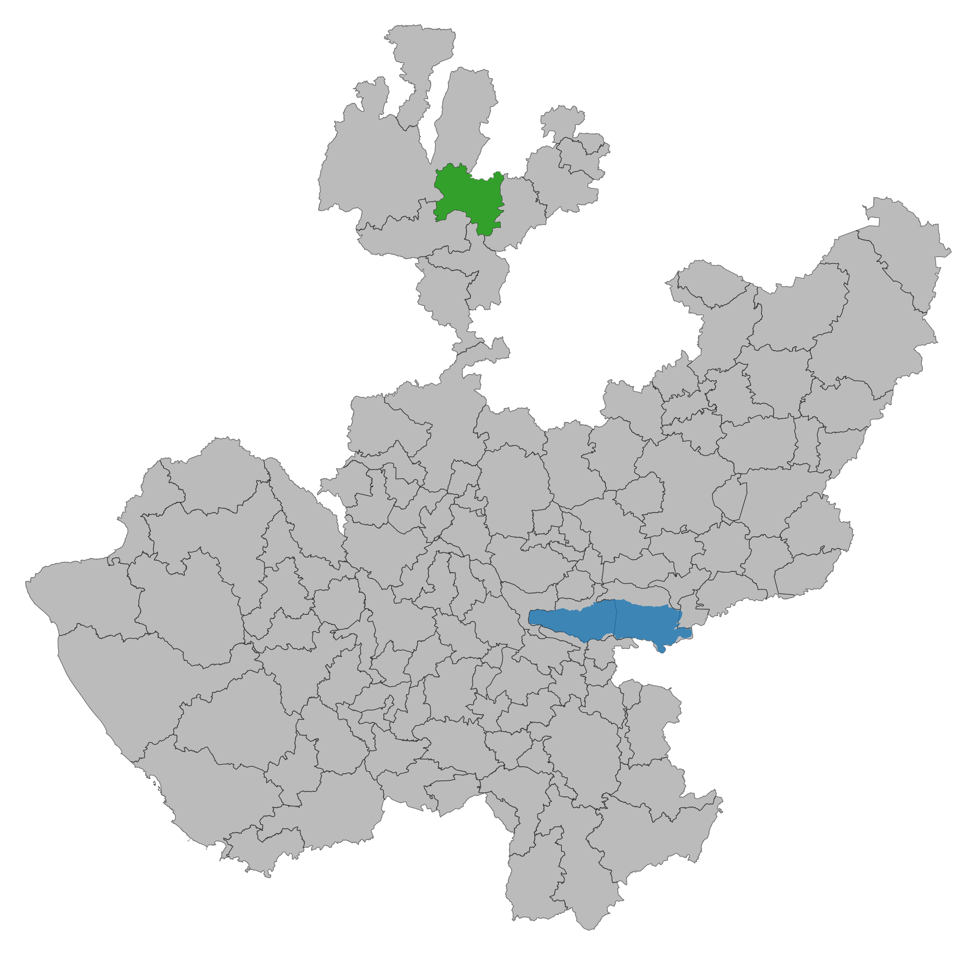 Municipality of Jalisco. Prepared with the software QGIS version 2.8.2 Wien & with information of SCINCE 2010 version 05/2013